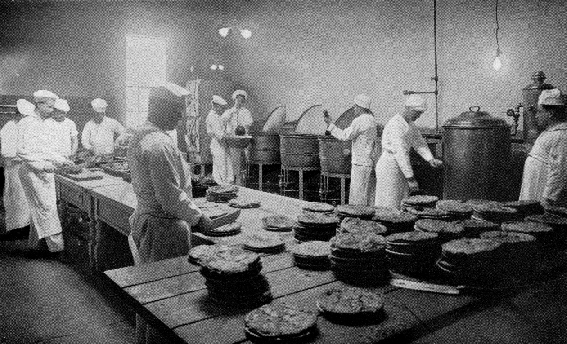 PASTRY CLASS, COMMISSARY SCHOOL, NAVAL TRAINING STATION: Newport, Rhode Island. To be "well versed in the arts of pies, custards, and tarts" is an accomplishment no less vital to the success of a navy than gunnery or signaling. Each must do his bit on a warship, and one of the most important of these is cookery, which keeps in fighting trim the man who points the gun and the officer who navigates the ship.